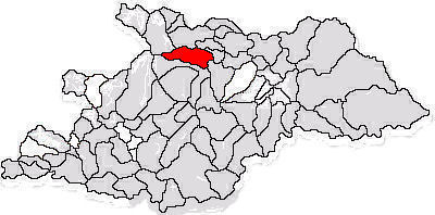 Map of Giuleşti commune in Maramureş